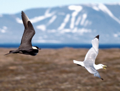 Arctic skua hunting a kittiwake, Stercorarius parasiticus, Svalbard 2002, by User:Michael Haferkamp